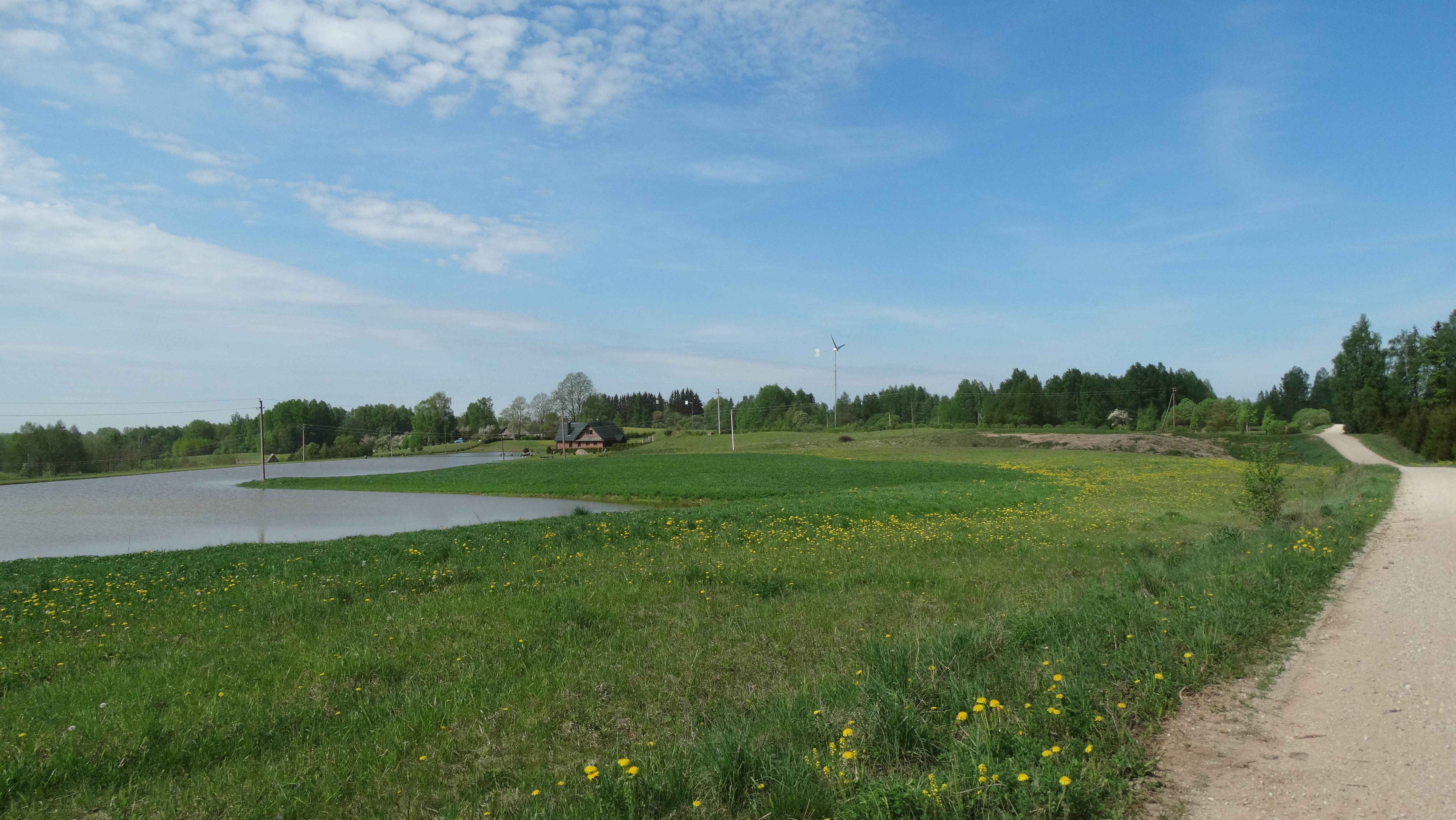 Žibėčiai I, Molėtai district, Lithuania